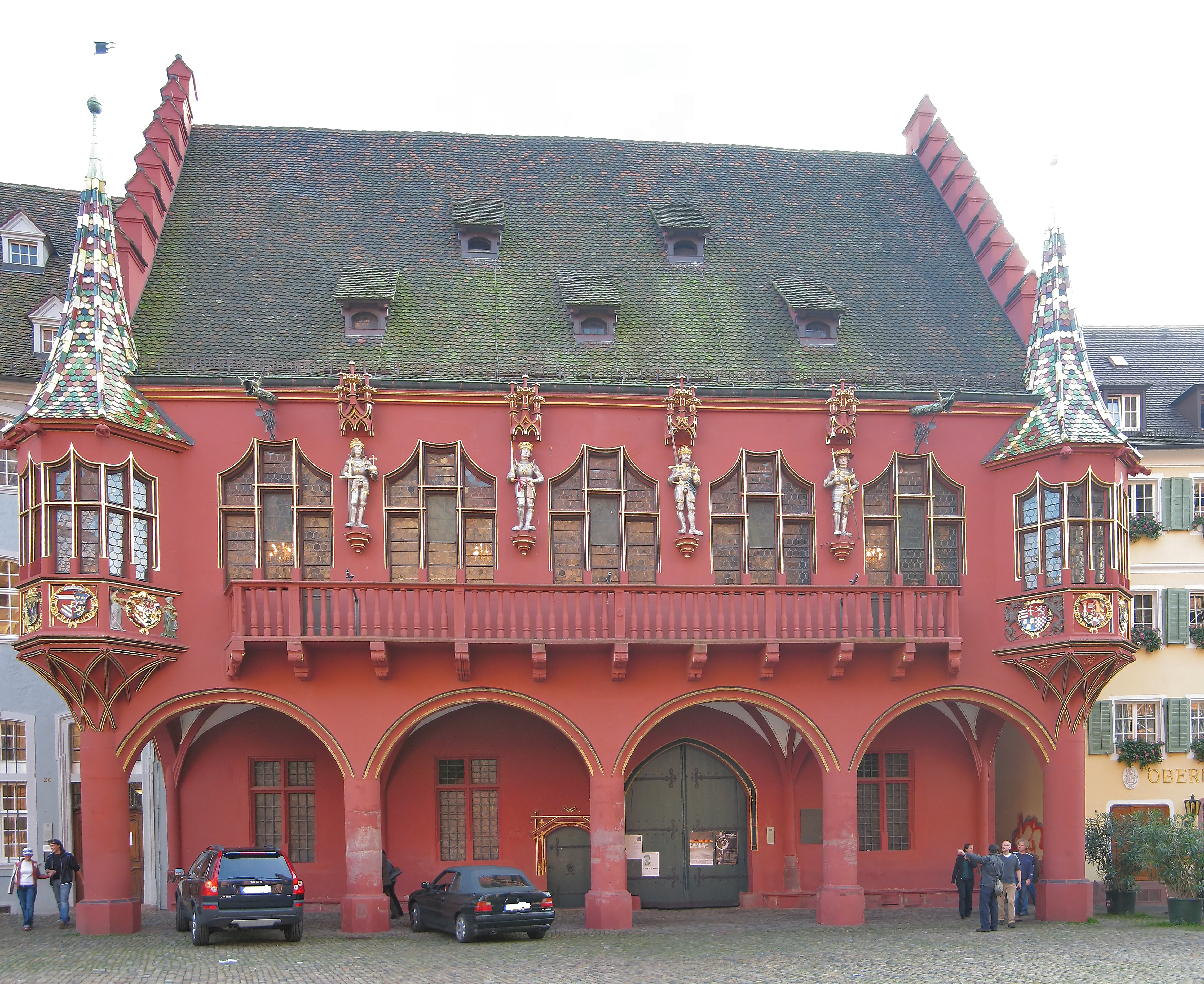 The Historic Merchants Hall in Freiburg dates to 1520-21. The front facade is decorated with statues and coats of arms that were sculpted between 1520 and 1531 by Sixt von Staufen. The sculpted figures under baldachins show Emperor Maximilian I, King Philipp the Beautiful of Castile, Emperor Charles V and Emperor Ferdinand I -- all Hapsburgs.